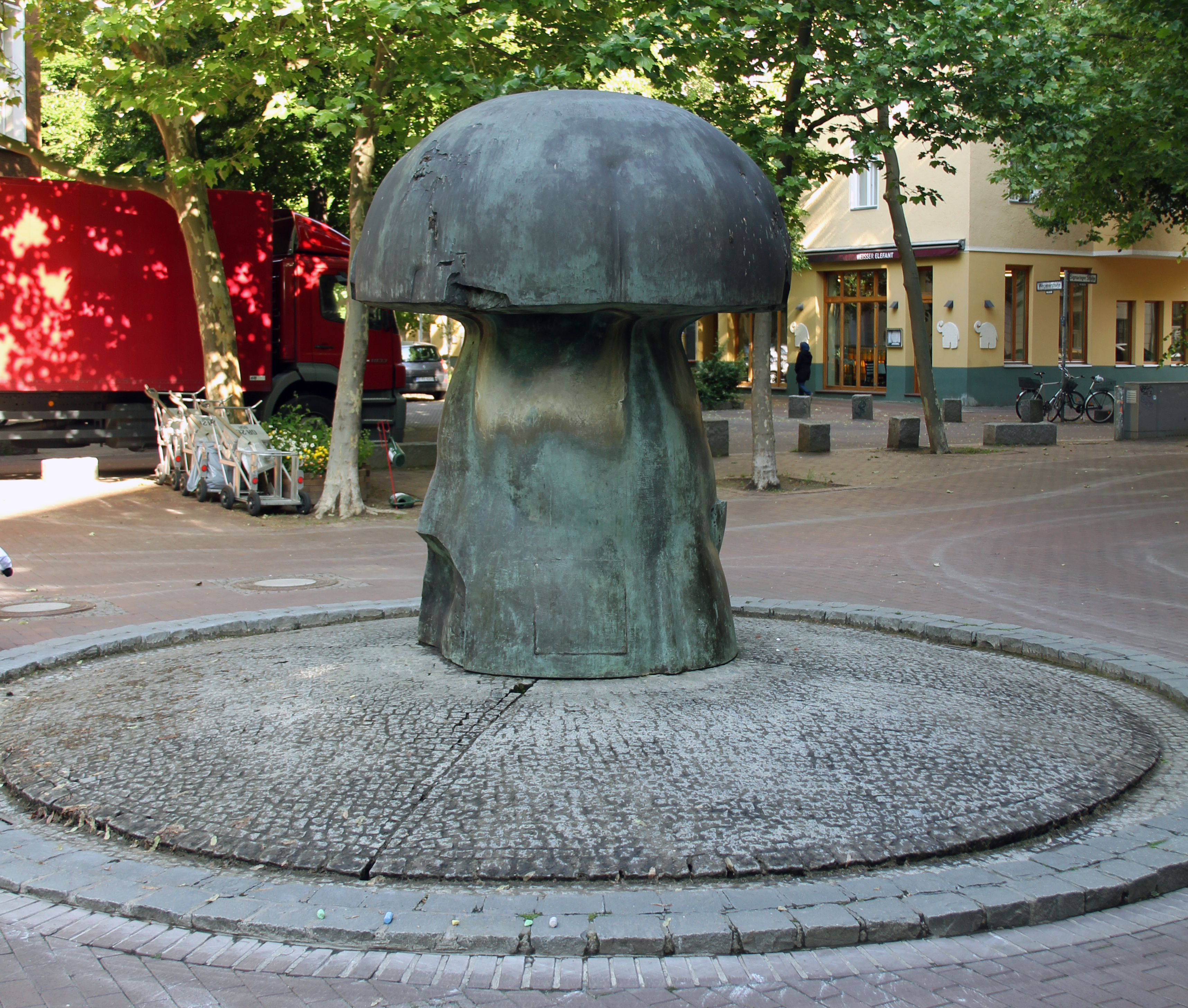 Fountain, "Wasserpilz" by Emanuel Scharfenberg, 1984, Leon-Jessel-Platz, Berlin-Wilmersdorf, Germany